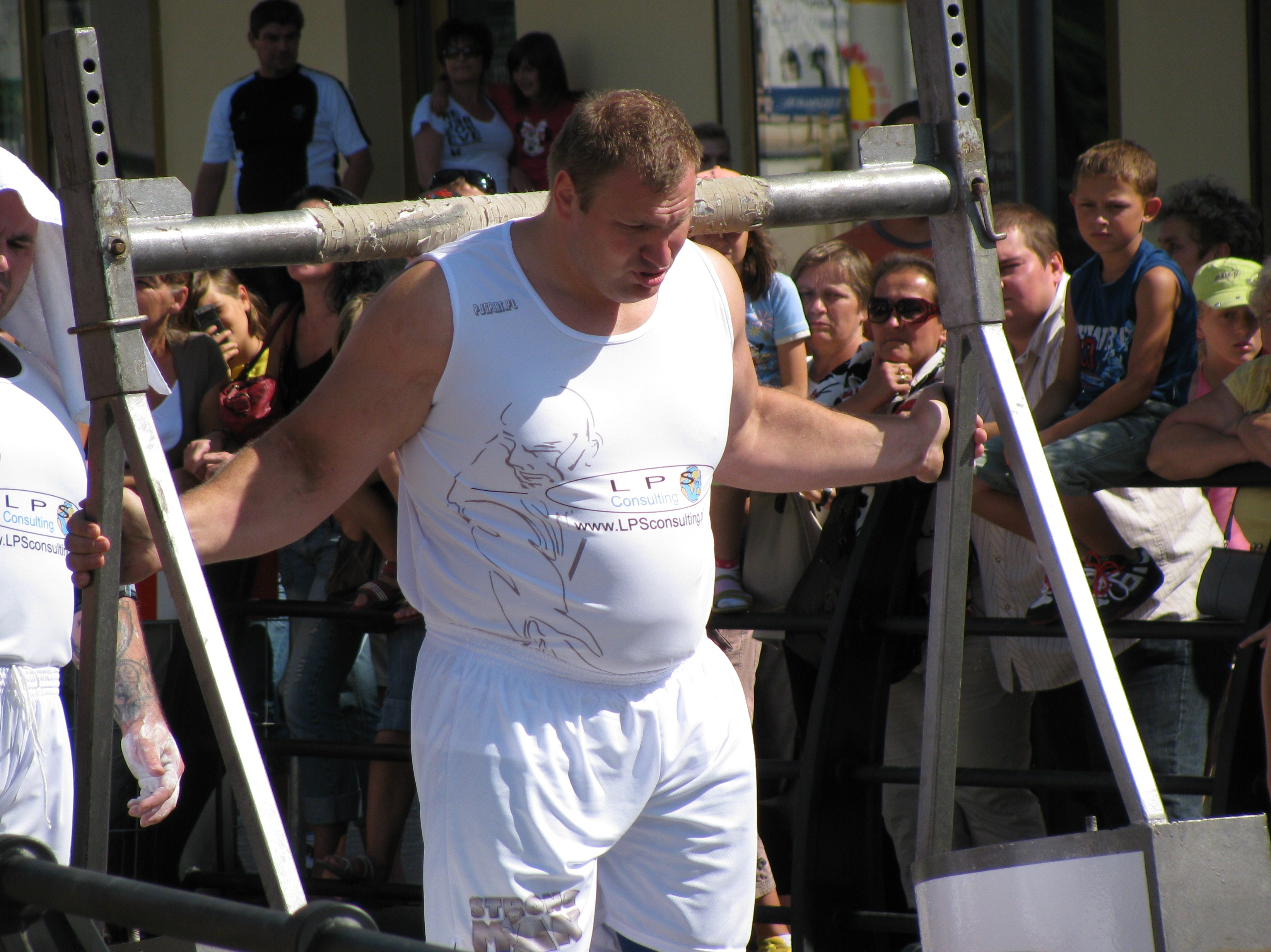 Tarmo Mitt - a strength athlete from Estonia. Estonia's Strongest Man